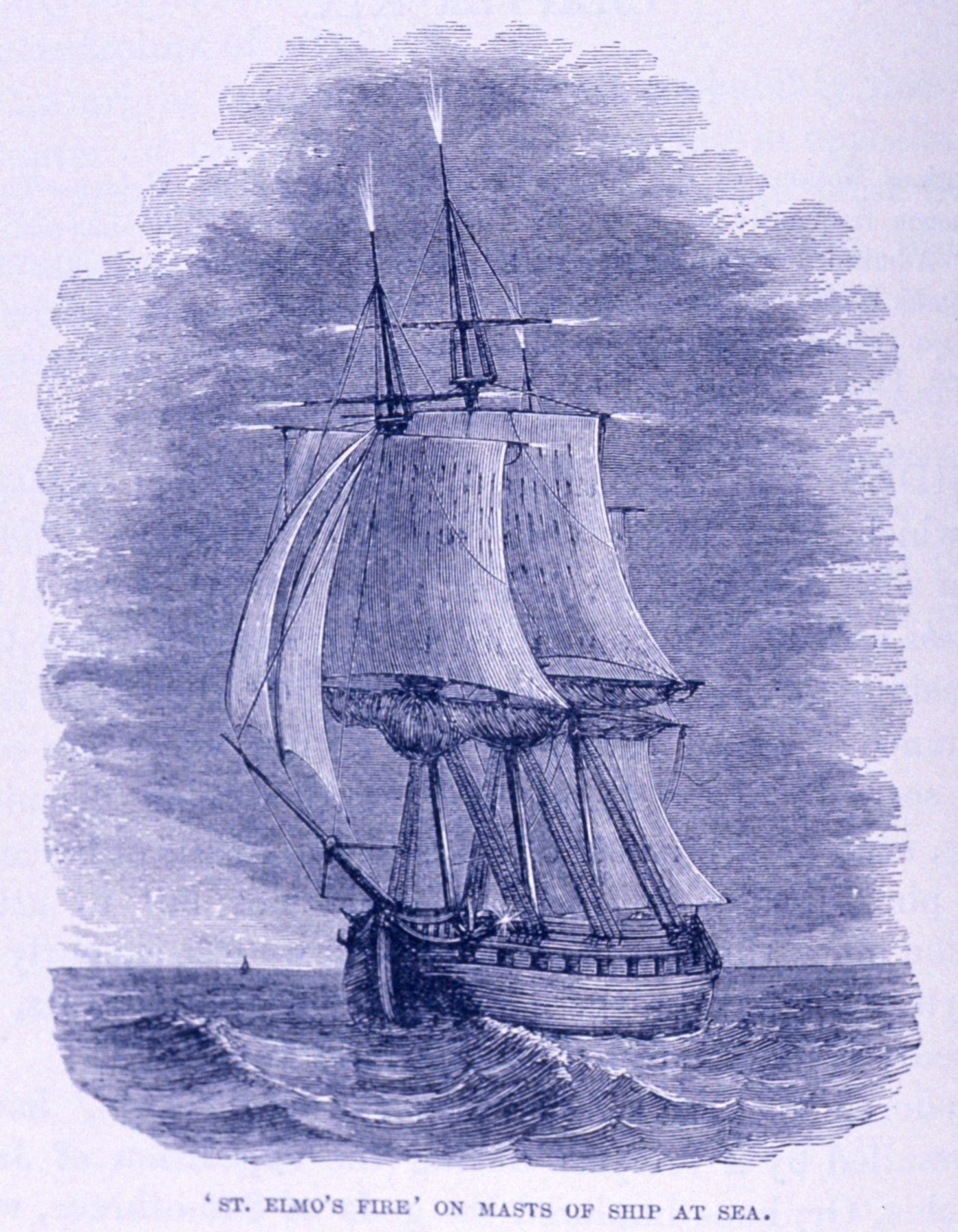 St. Elmo’s fire on Masts of Ship at Sea